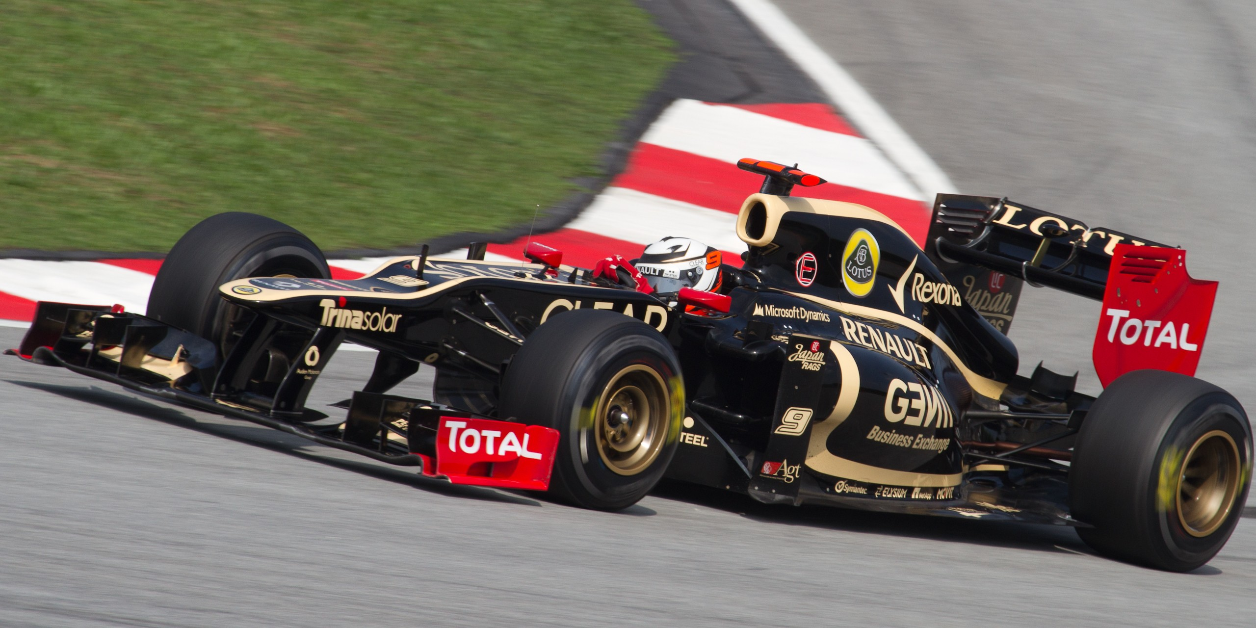 Formula One 2012 Rd.2 Malaysian GP: Kimi Räikkönen (Lotus) during the qualify session on Saturday.